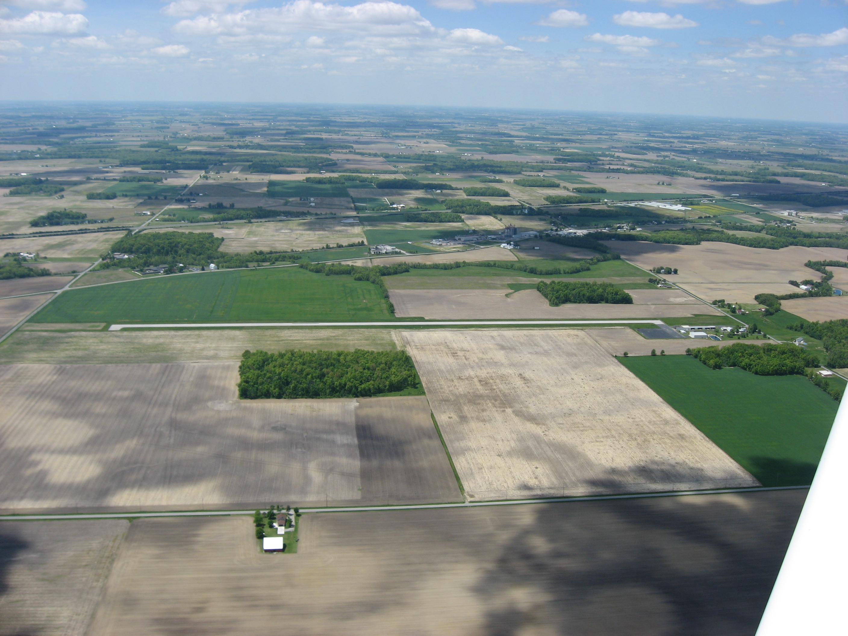 Aerial view of the Wyandot Airport in northeastern Salem Township, Wyandot County, Ohio, United States, north of Upper Sandusky. Picture taken from a Diamond Eclipse light airplane at an altitude of 2,500 feet MSL and a bearing of approximately 270º. Horizontal road in foreground is County Road 107.